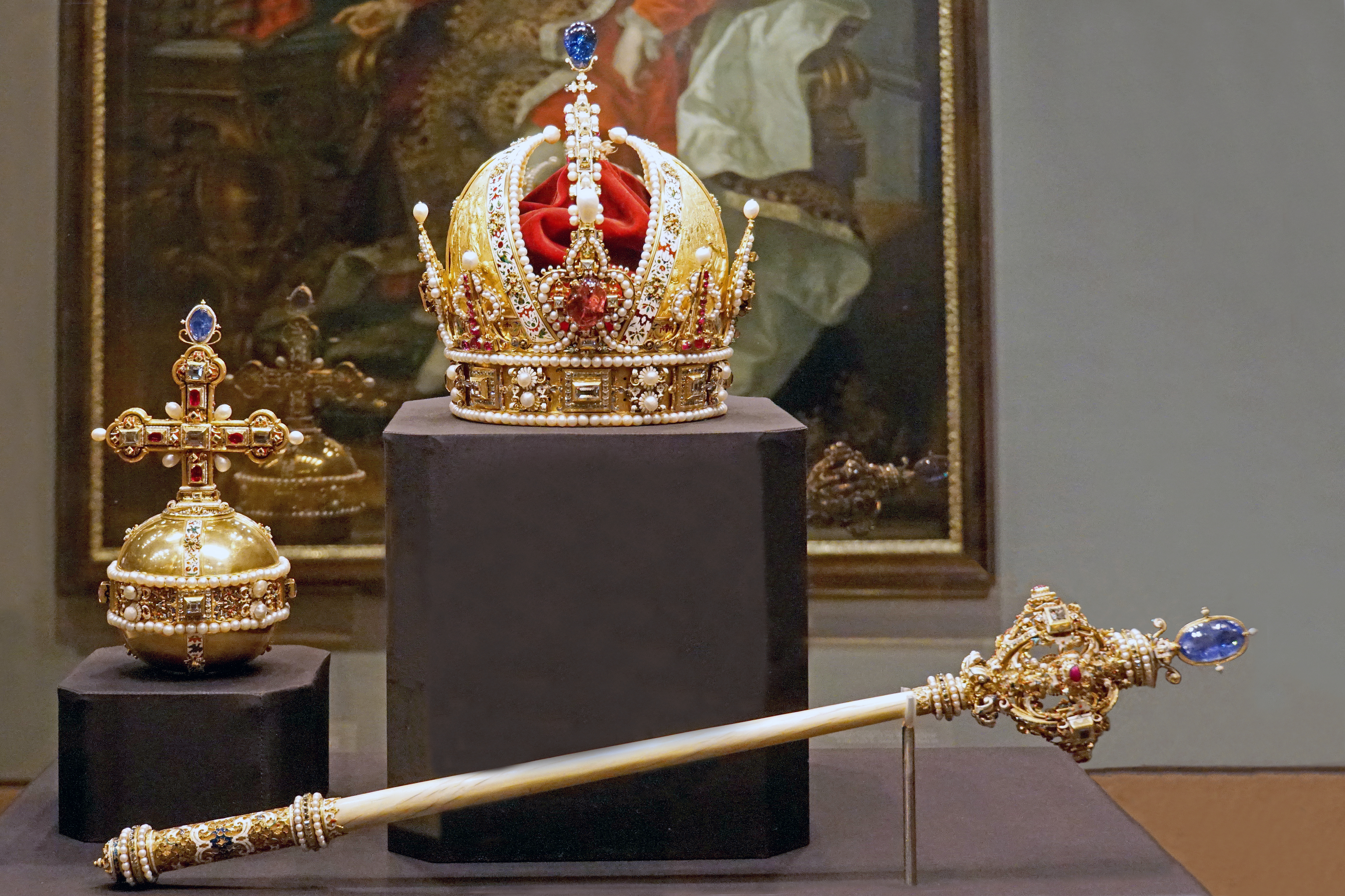 Crown Jewels of Austria (colour correct version)